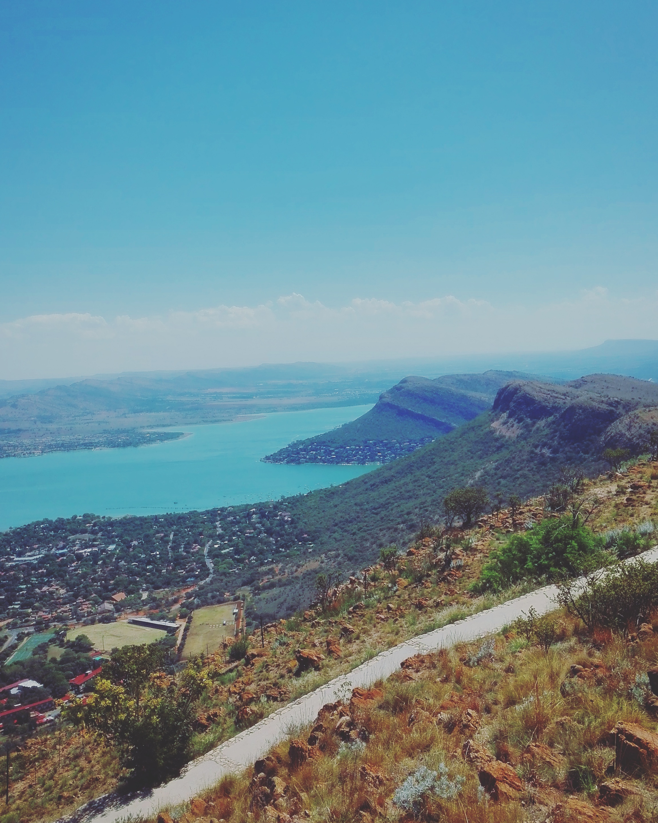 Hartbeespoortdam and Magaliesberge